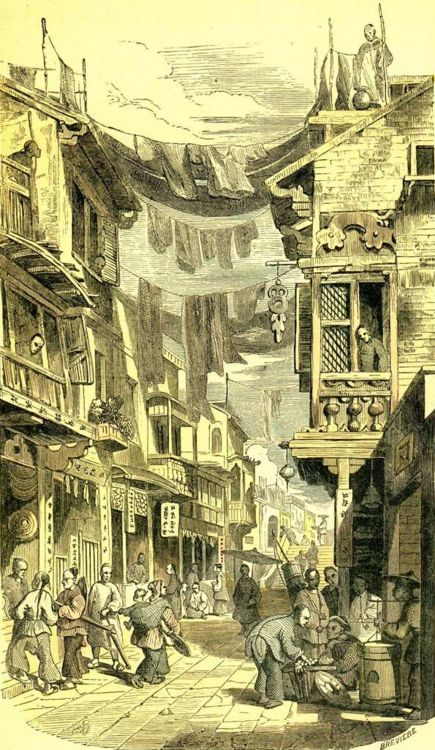 An illustration from Jules Verne's novel "Tribulations of a Chinaman in China" (1878) drawn by Léon Benett.